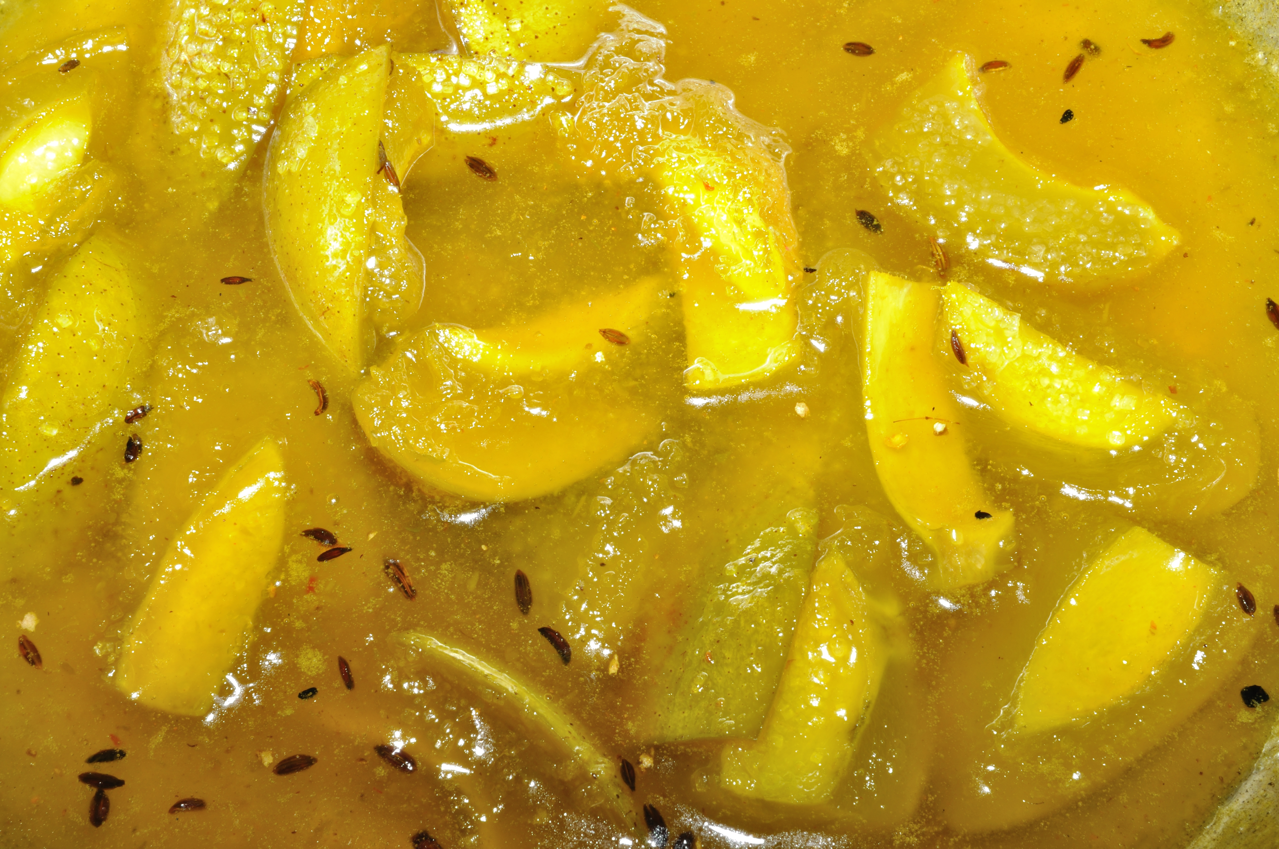 Unripe mango (bn: Aam) chutney, it is a very popular dish in West Bengal.